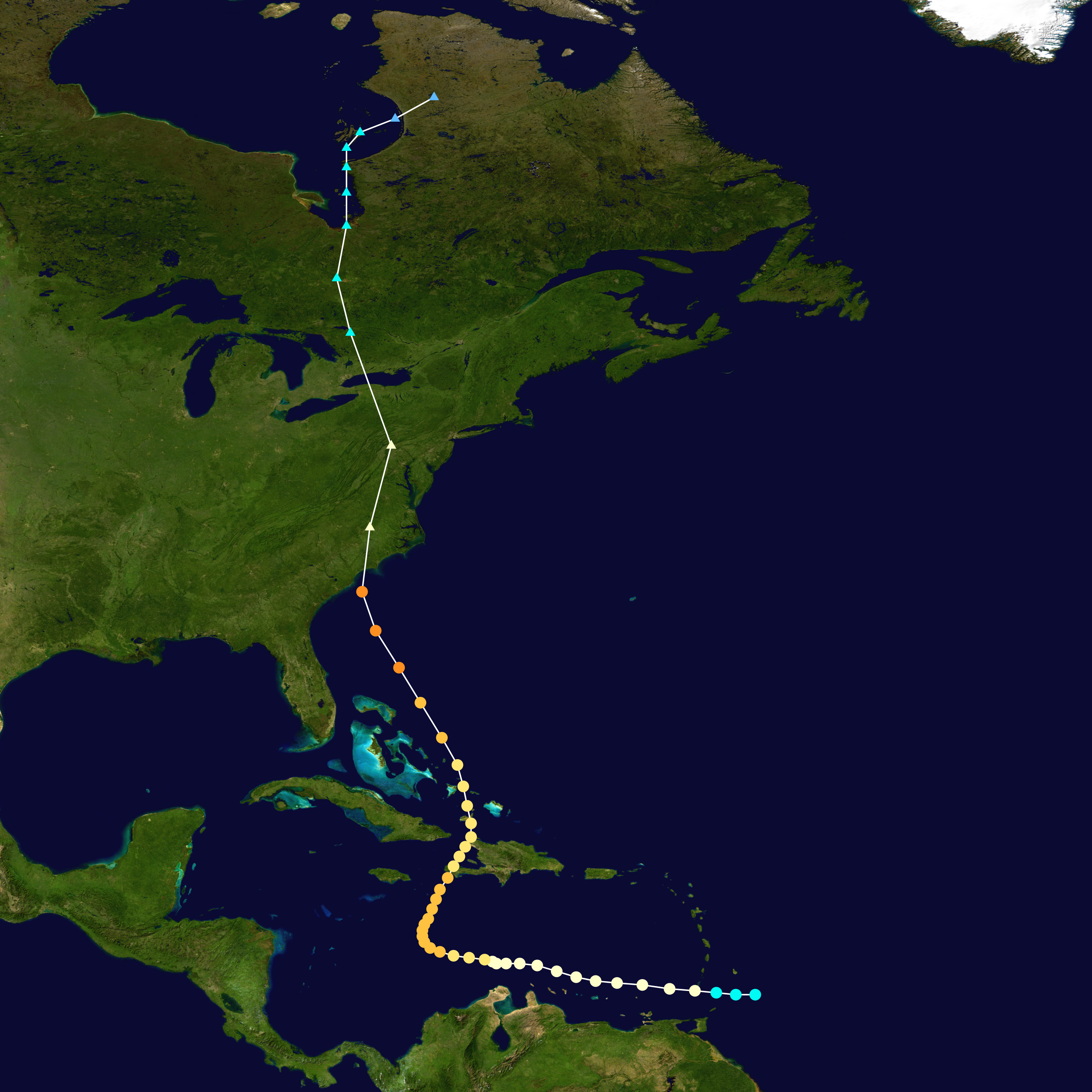 Track map of Hurricane Hazel of the 1954 Atlantic hurricane season. The points show the location of the storm at 6-hour intervals. The colour represents the storm's maximum sustained wind speeds as classified in the Saffir–Simpson scale (see below), and the shape of the data points represent the nature of the storm, according to the legend below. Saffir–Simpson scale Tropical depression≤38 mph≤62 km/h Category 3111–129 mph178–208 km/h Tropical storm39–73 mph63–118 km/h Category 4130–156 mph209–251 km/h Category 174–95 mph119–153 km/h Category 5≥157 mph≥252 km/h Category 296–110 mph154–177 km/h Unknown Storm type Tropical cyclone Subtropical cyclone Extratropical cyclone / Remnant low / Tropical disturbance / Monsoon depression